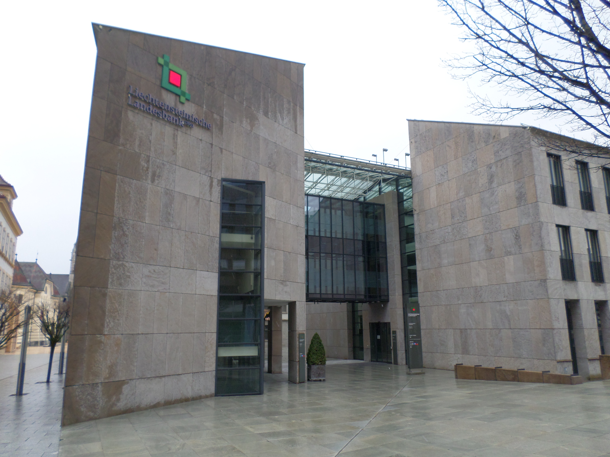 National Bank of Liechtenstein, Vaduz, Liechtenstein